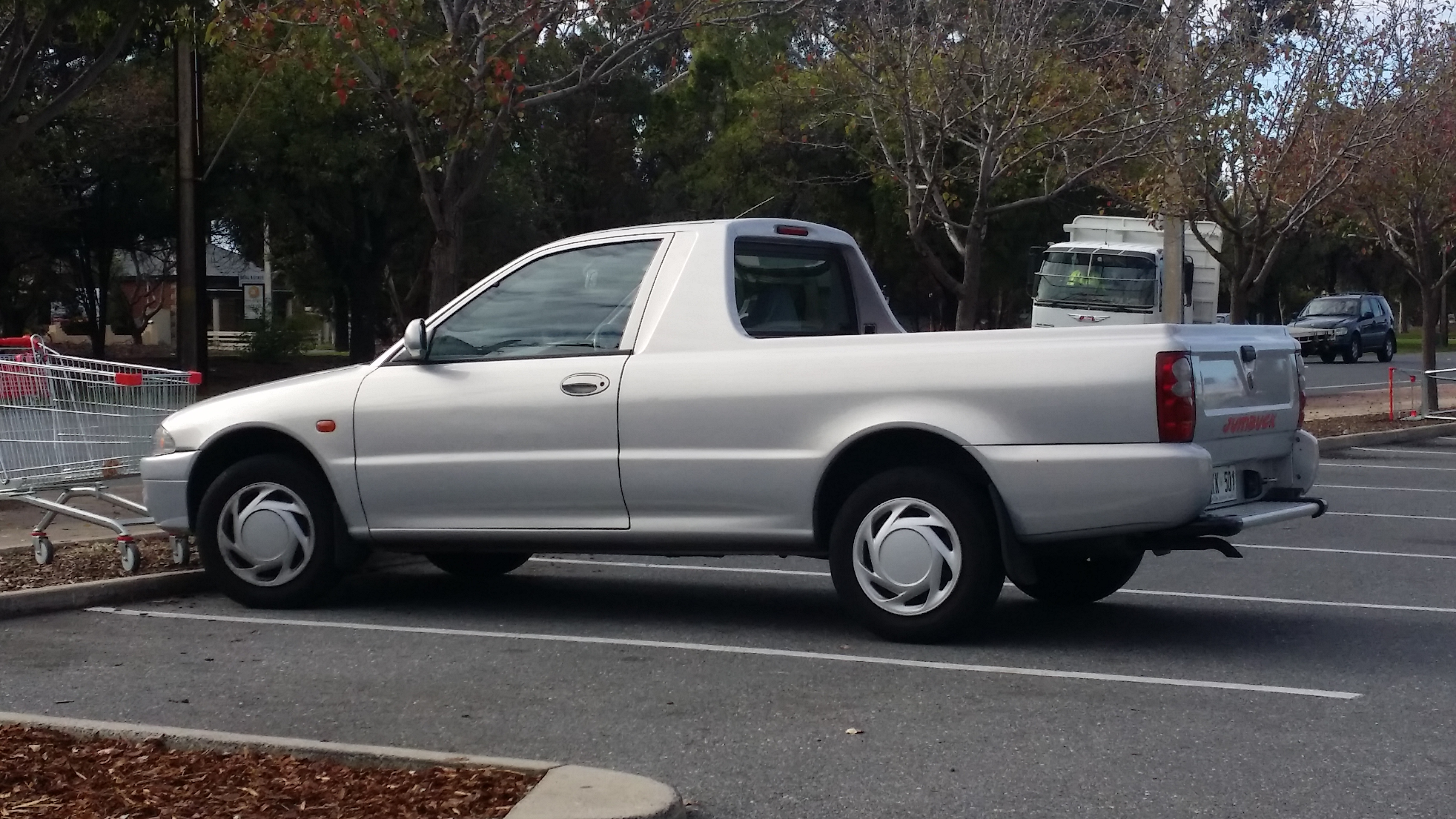 I'm really surprised Proton haven't come up with a replacement for the trusty Jumbuck, considering how popular it was here in Australia. I'm even more surprised why no other manufacturers imported their compact Utes, like the Fiat Strada, Volkswagen Saveiro, Chevrolet Montana, and the Peugeot Hoggar, considering the popularity of Utes here.